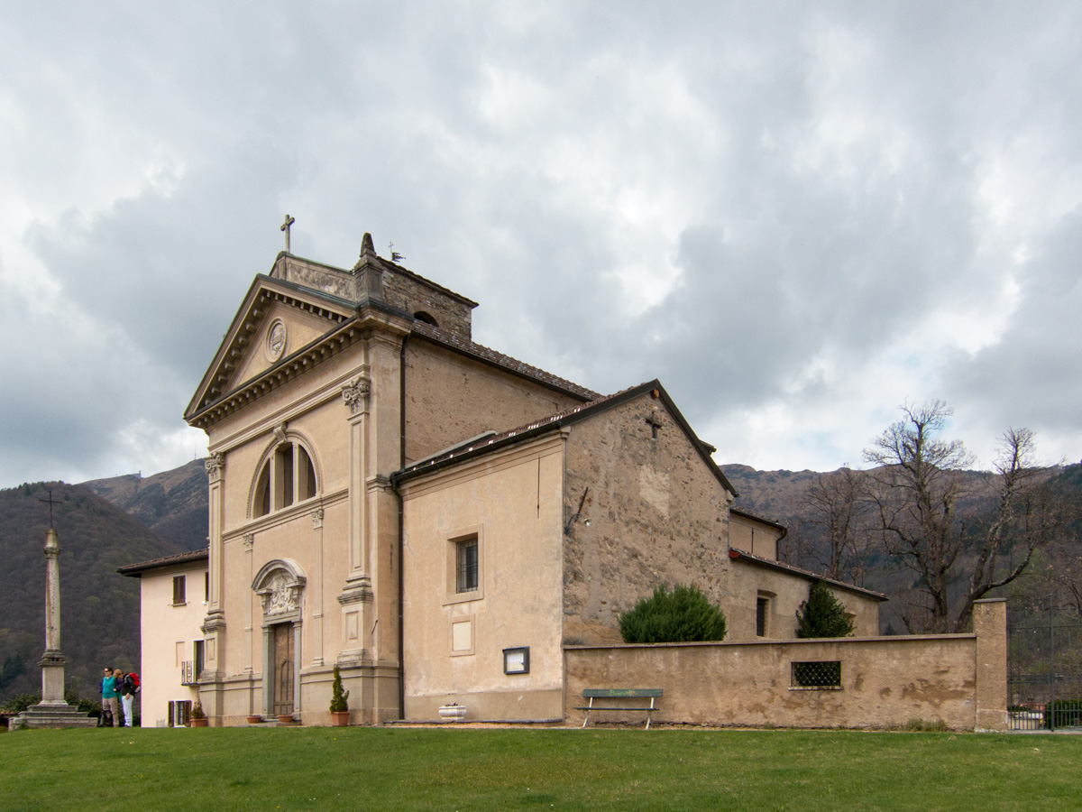 San Lorenzo Church in Breno, Tessin, Switzerland